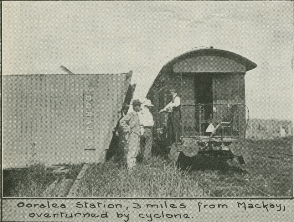 Ooralea station, 3 miles from Mackay, overturned by cyclone, 16 March 1918